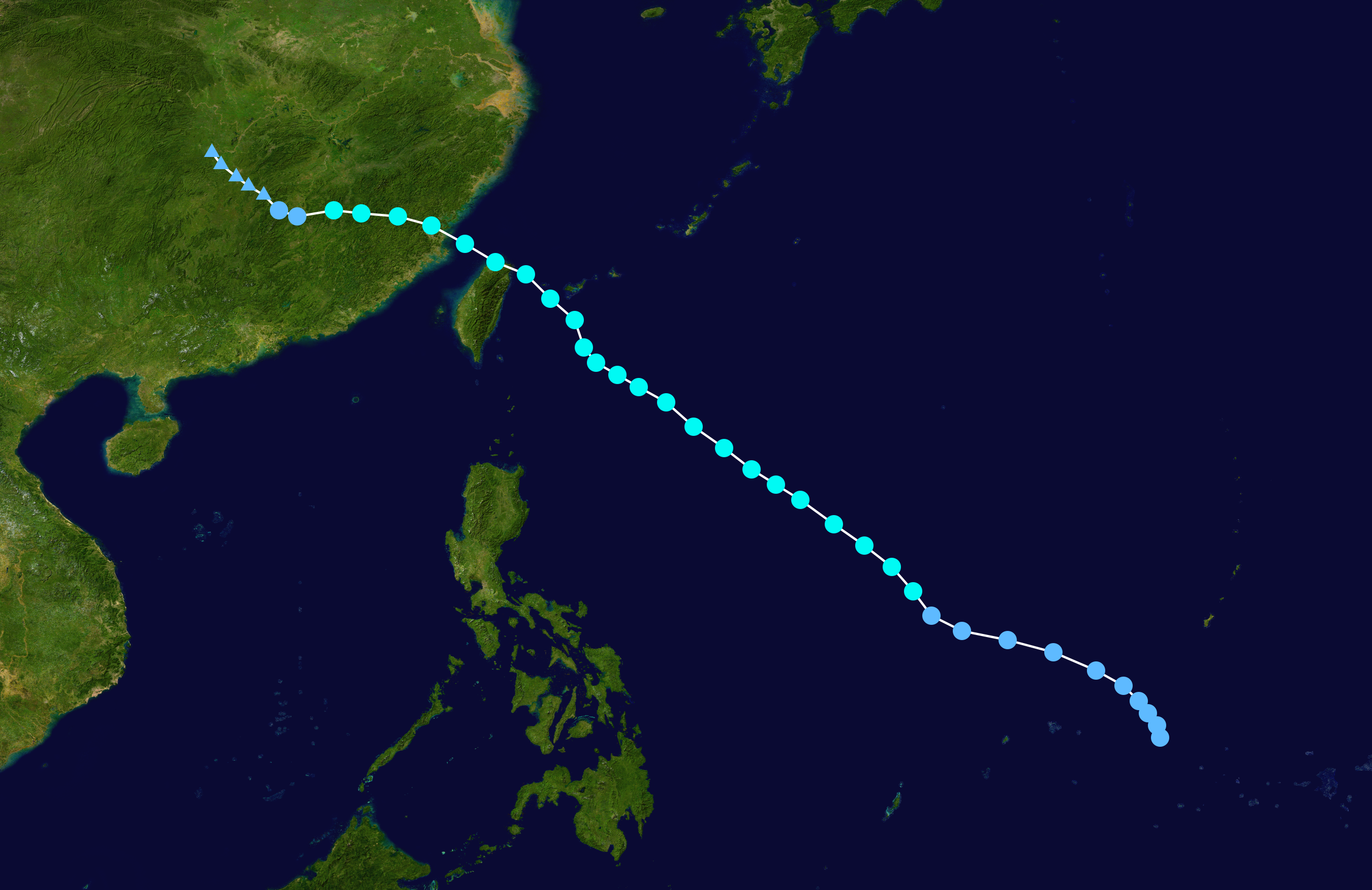 Tropical Storm Bilis (2006) track. Uses the color scheme from the Saffir-Simpson Hurricane Scale.